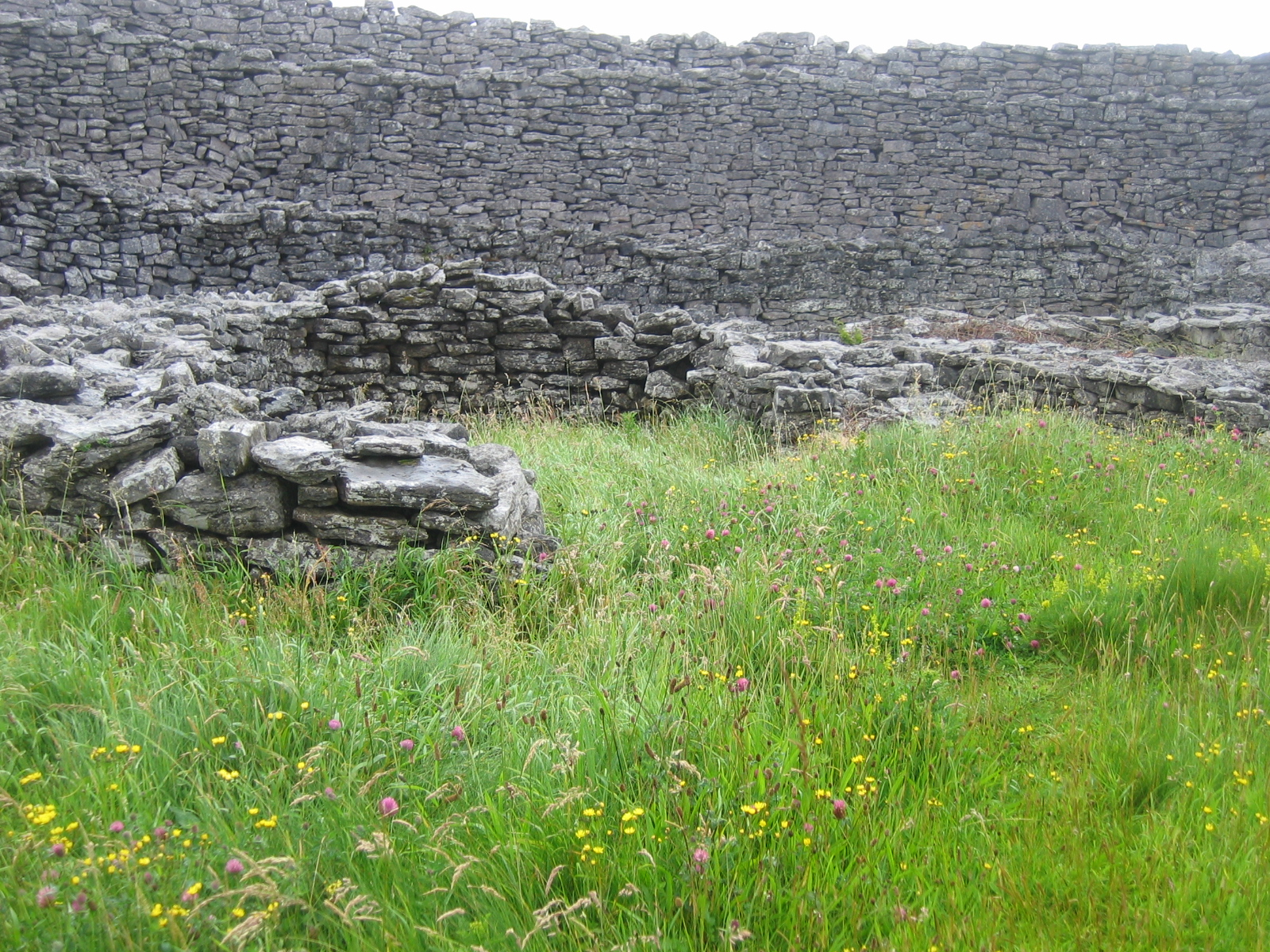 inside the fort at Dun Chonchuir on Inis Meain in the Aran Islands, County Galway, Republic of Ireland